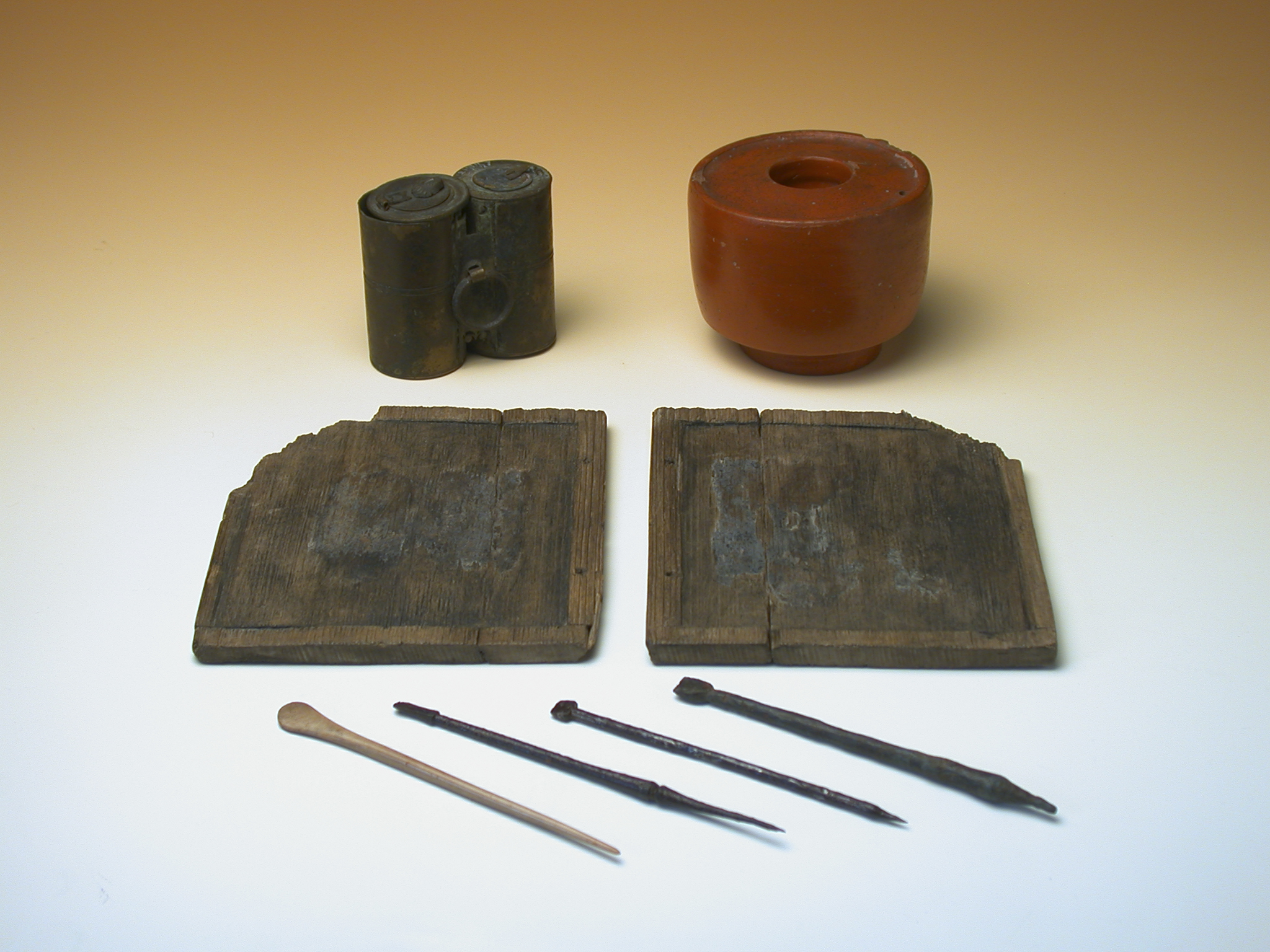 Roman writing tablet (tabula) with styli and spatulas.